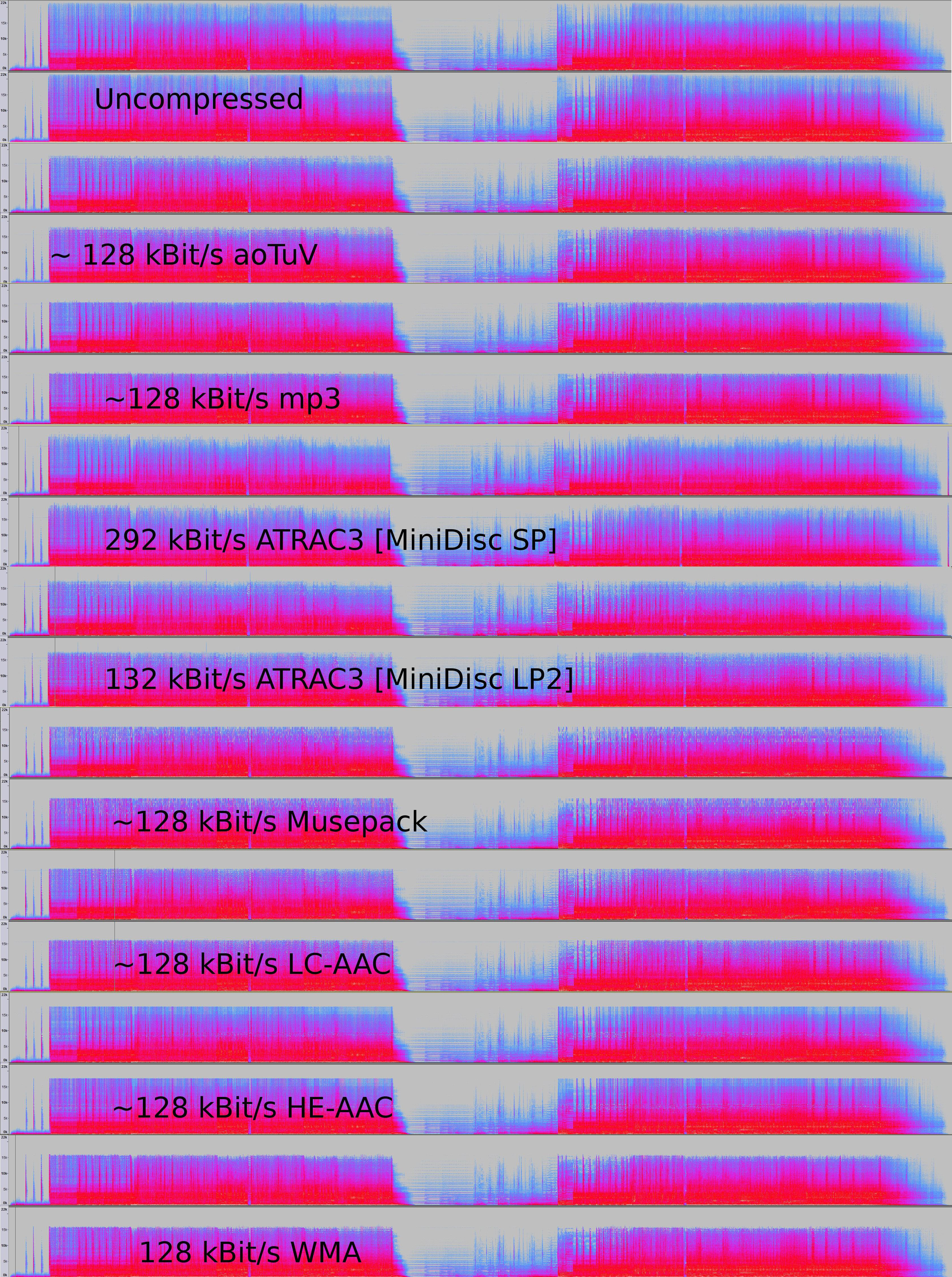 Manowar The Power of Thy Sword (1992), frequencies of the uncompressed, 128 aoTuV, mp3 and ATRAC3 Files.